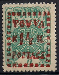 Stamp of Tuva, 1927